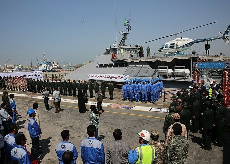 Accession ceremony of Shahid Nazeri speed vessel to Bushehr naval